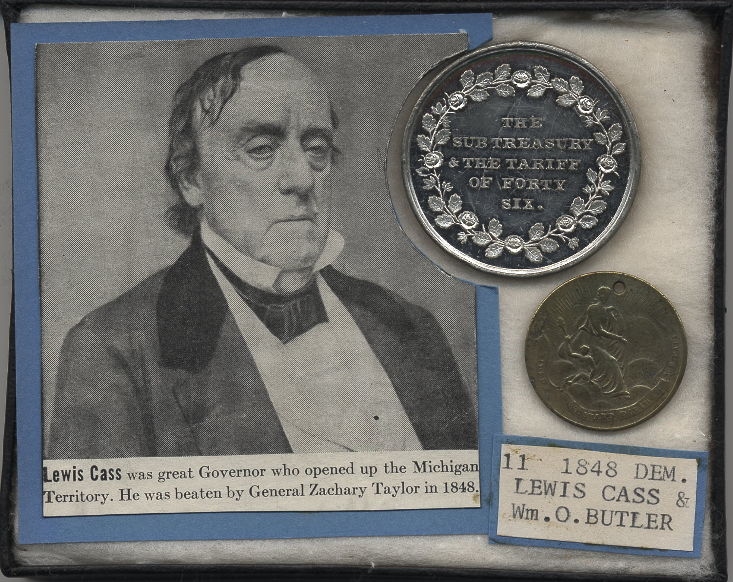 Collection: Cornell University Collection of Political Americana, Cornell University Library Repository: Susan H. Douglas Political Americana Collection, #2214 Rare & Manuscript Collections, Cornell University Library, Cornell University Title: Cass Campaign Items, ca. 1848 Political Party: Democratic Election Year: 1848 Date Made: ca. 1848 Measurement: Mount: 4 1/4 x 5 1/4 in.; 10.795 x 13.335 cm Classification: Ephemera Persistent URI: There are no known U.S. copyright restrictions on this image. The digital file is owned by the Cornell University Library which is making it freely available with the request that, when possible, the Library be credited as its source.